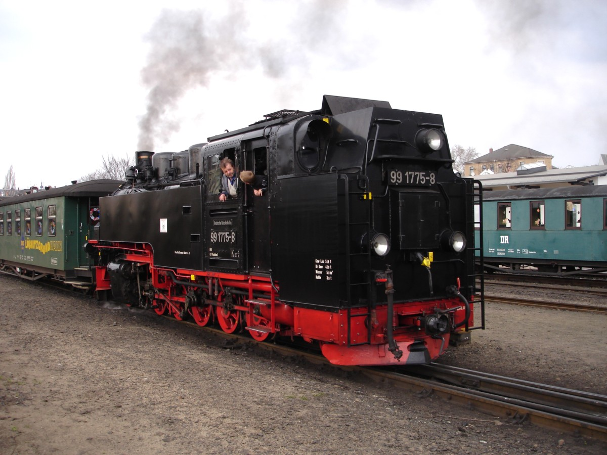 The Locomotive 99 1775 of the Lößnitzgrundbahn, a narrow-gauge railway line in Saxony connecting Radebeul with Radeburg.